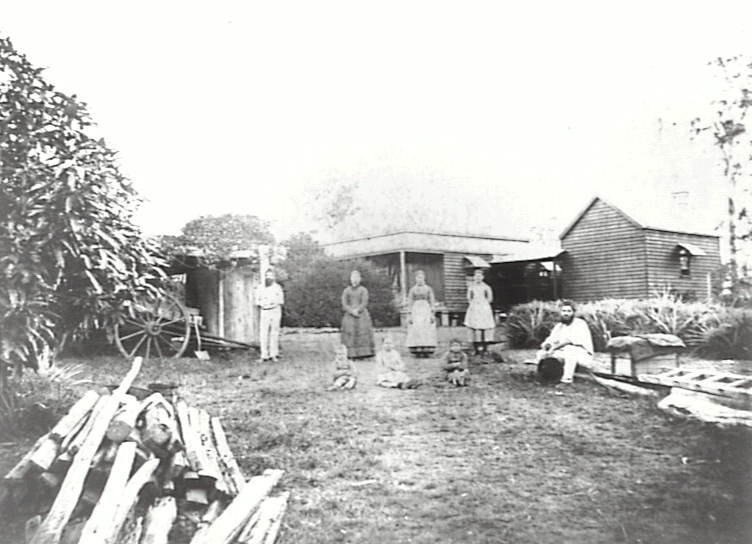 "Pleasent Place" (Mayes Cottage circ. 1887)